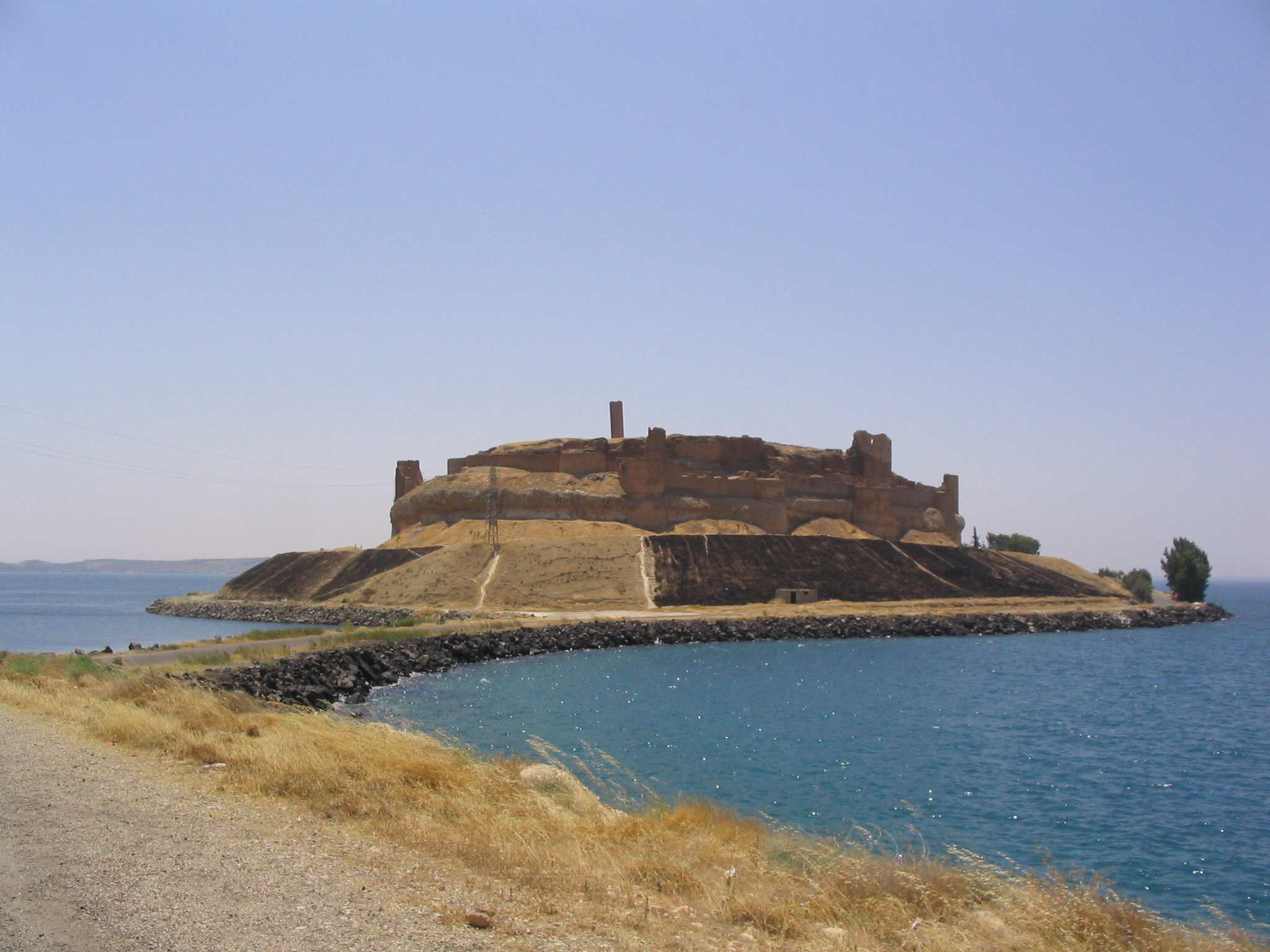 View of Qal'at Ja'bar (Syria) from the north, surrounded by the waters of Lake Assad